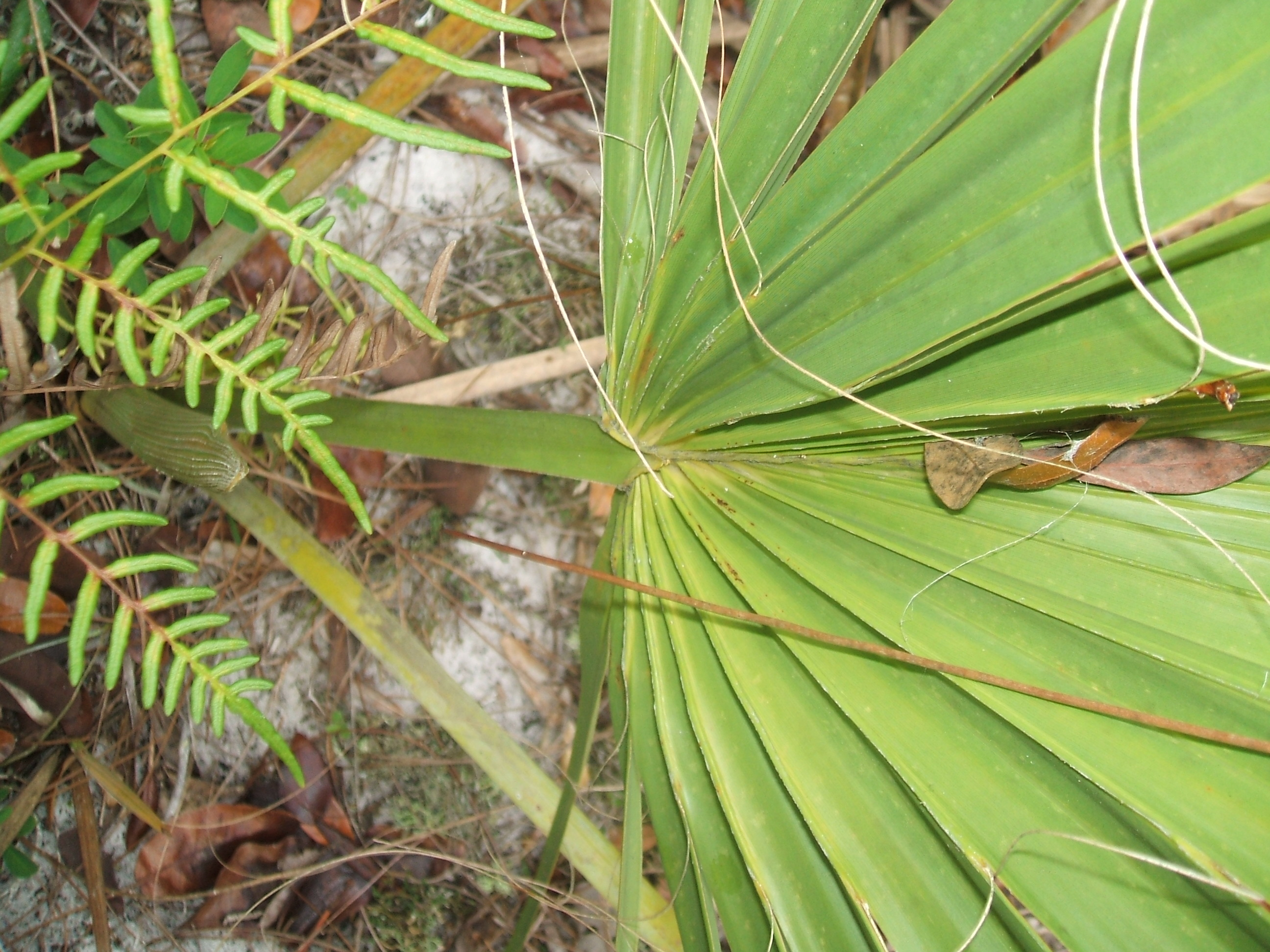 Sabal etonia, the scrub palmetto, at Archbold Biological Station, Florida, USA